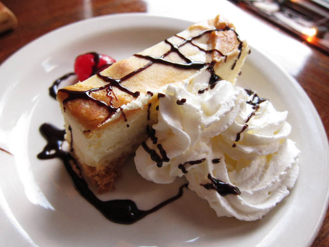 Cheesecake with chocolate sauce and whipped cream.